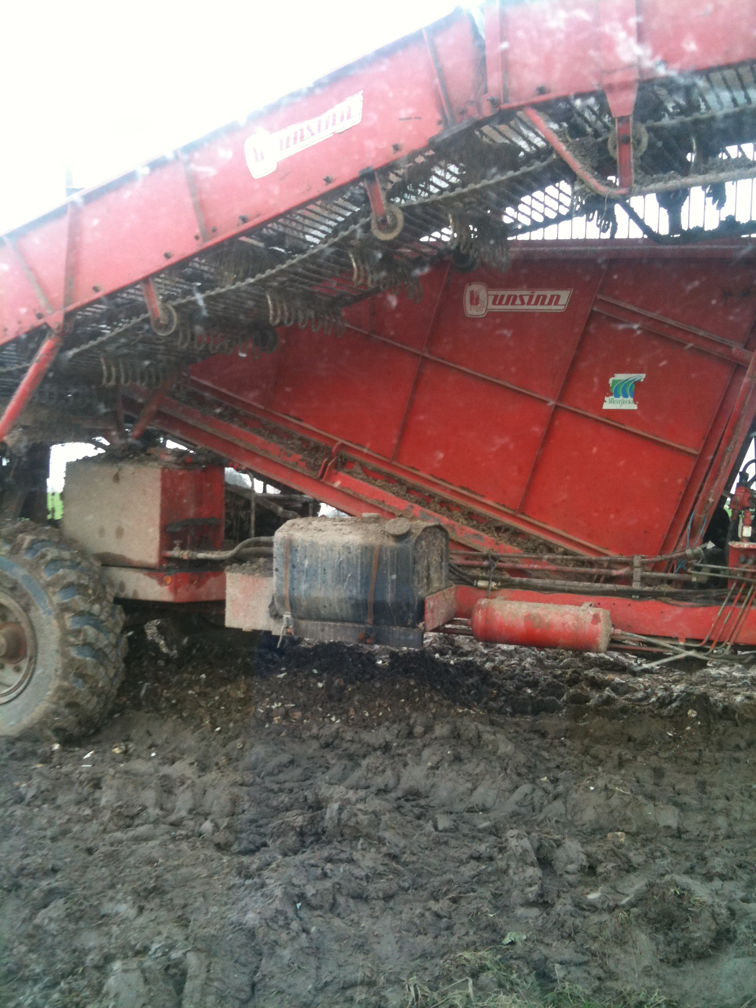 sugar beet cleaner